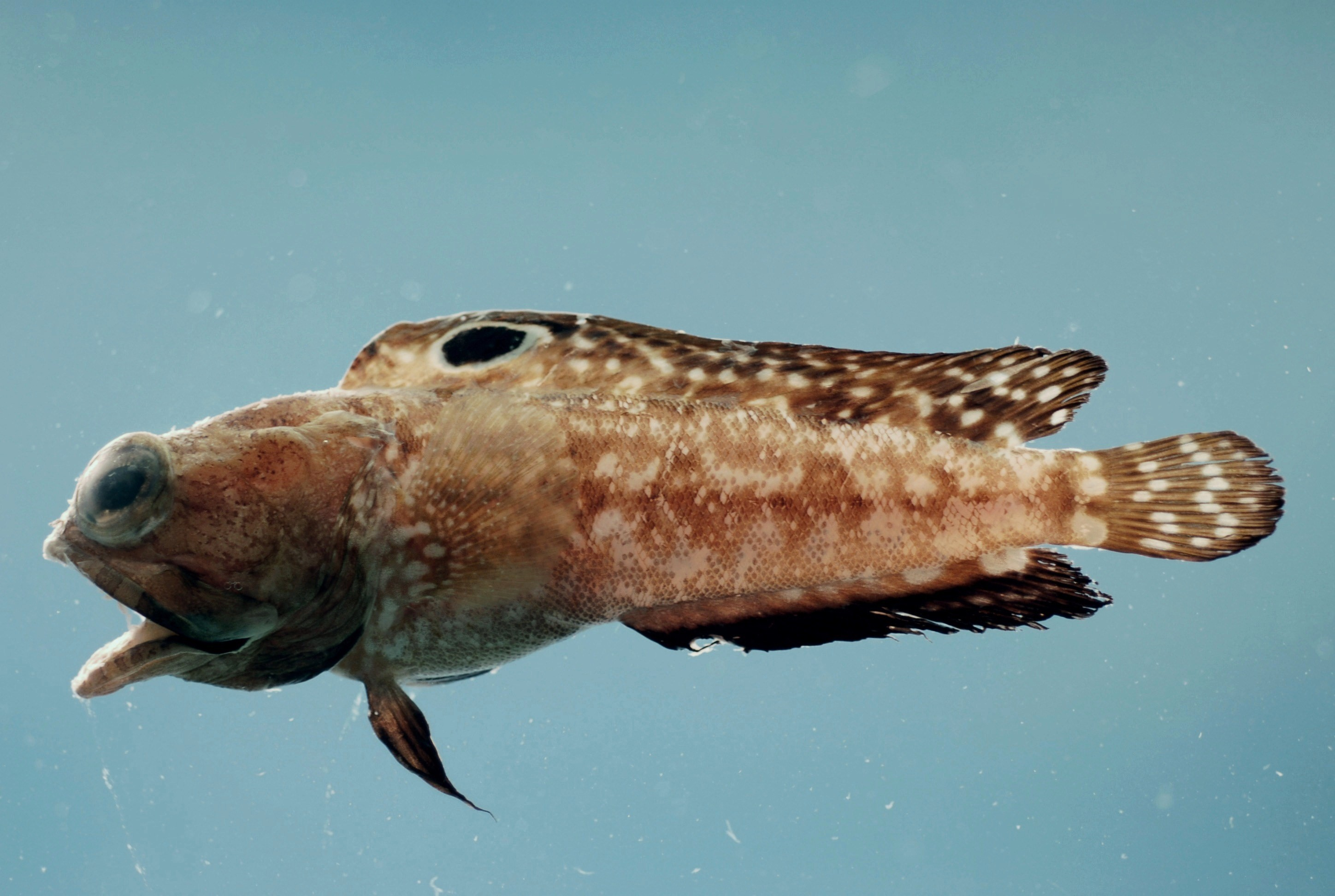 Spotfin jawfish (Opistognathus robinsi)